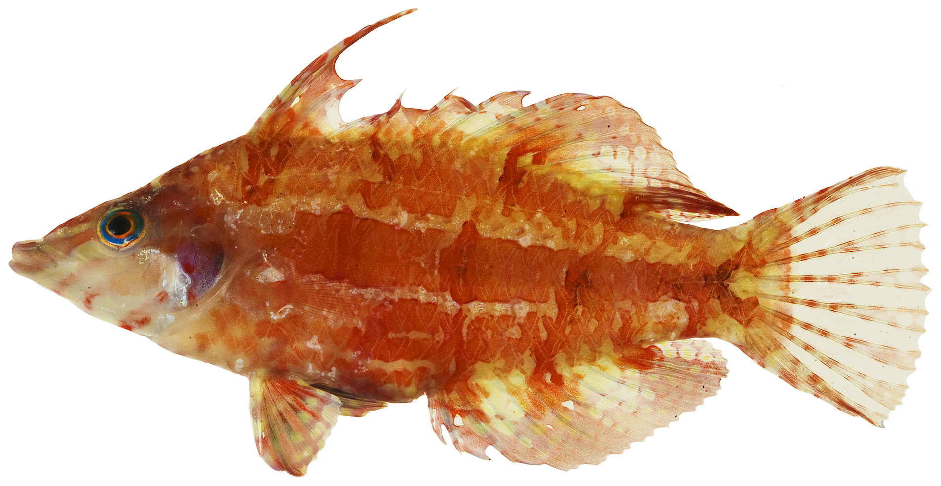 Doratonotus megalepis Günther, 1862—dwarf wrasse, 44.1 mm SL. Photo by JT Williams.